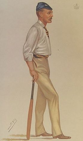 George Robert Canning Harris, 4th Baron Harris, English cricketer and politician